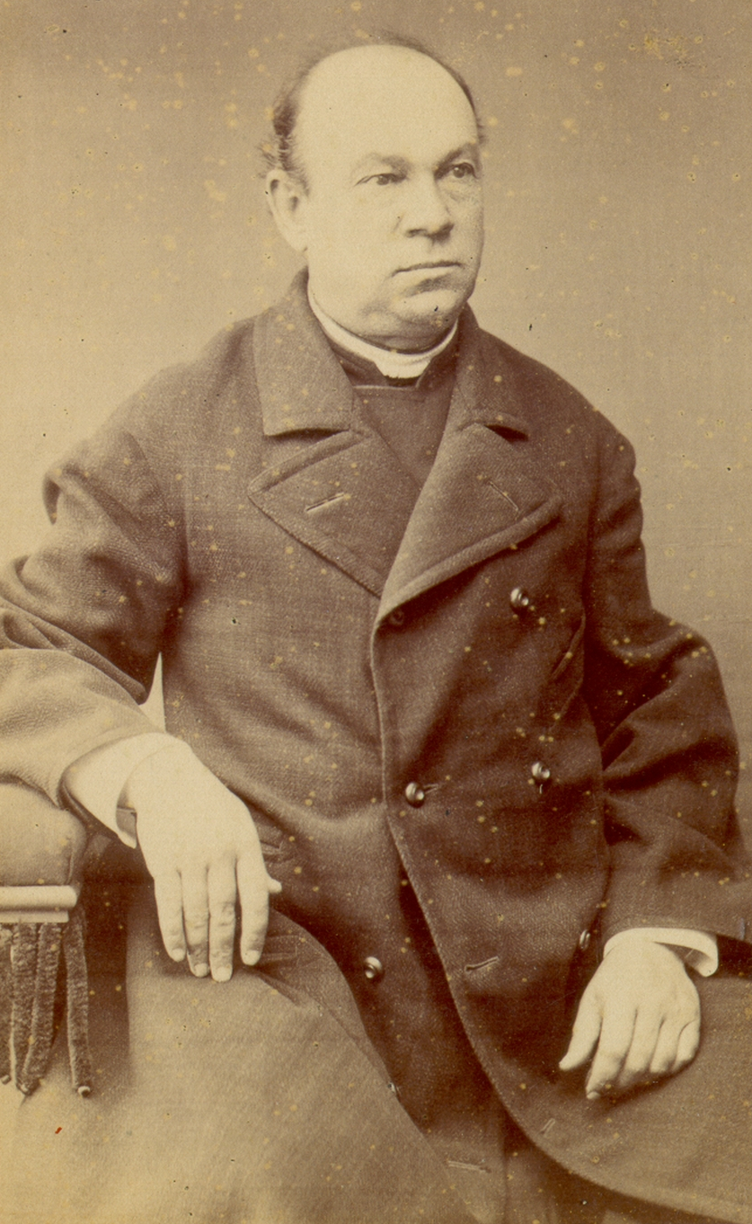 József Borovnyák (Jožef Borovnjak) writer politician of Hungarian Slovenes